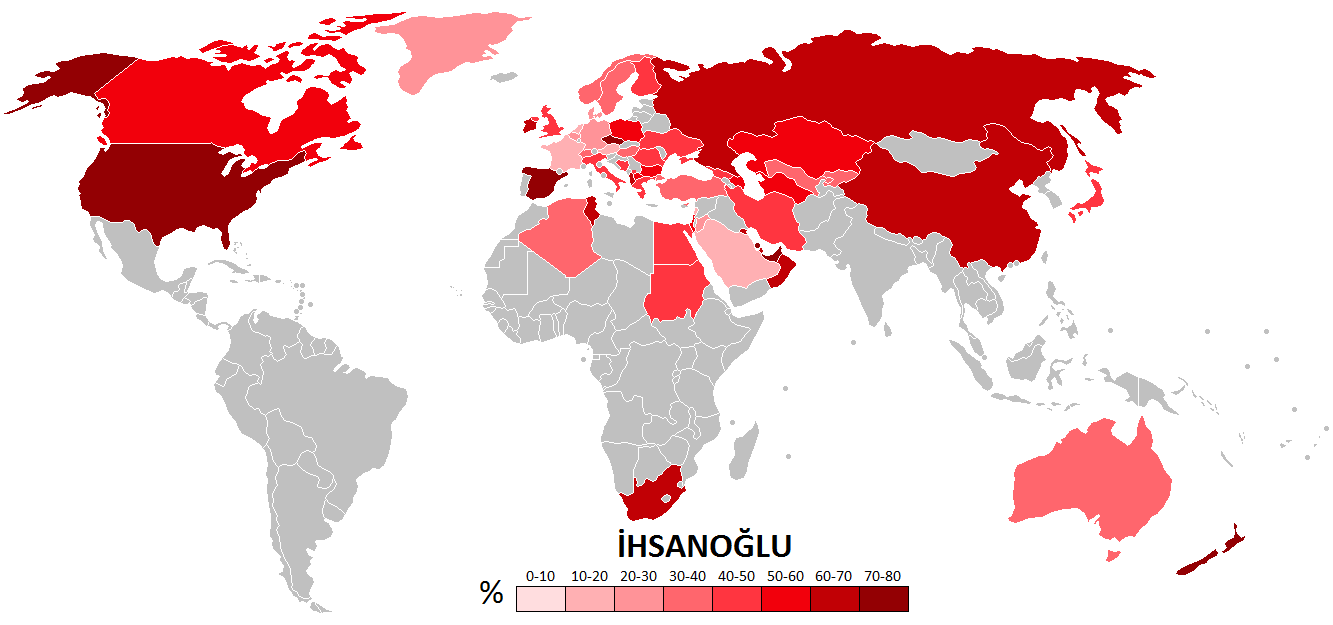 Map showing the distribution of overseas vote for Ekmeleddin İhsanoğlu in the 2014 Turkish presidential election. Original version by Roke is here.